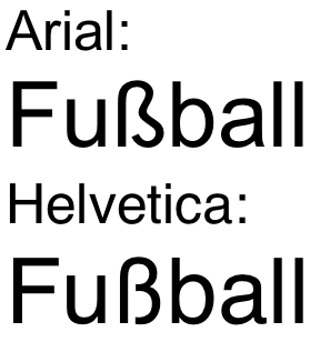 German letter ß in two current fonts: Arial and Helvetica